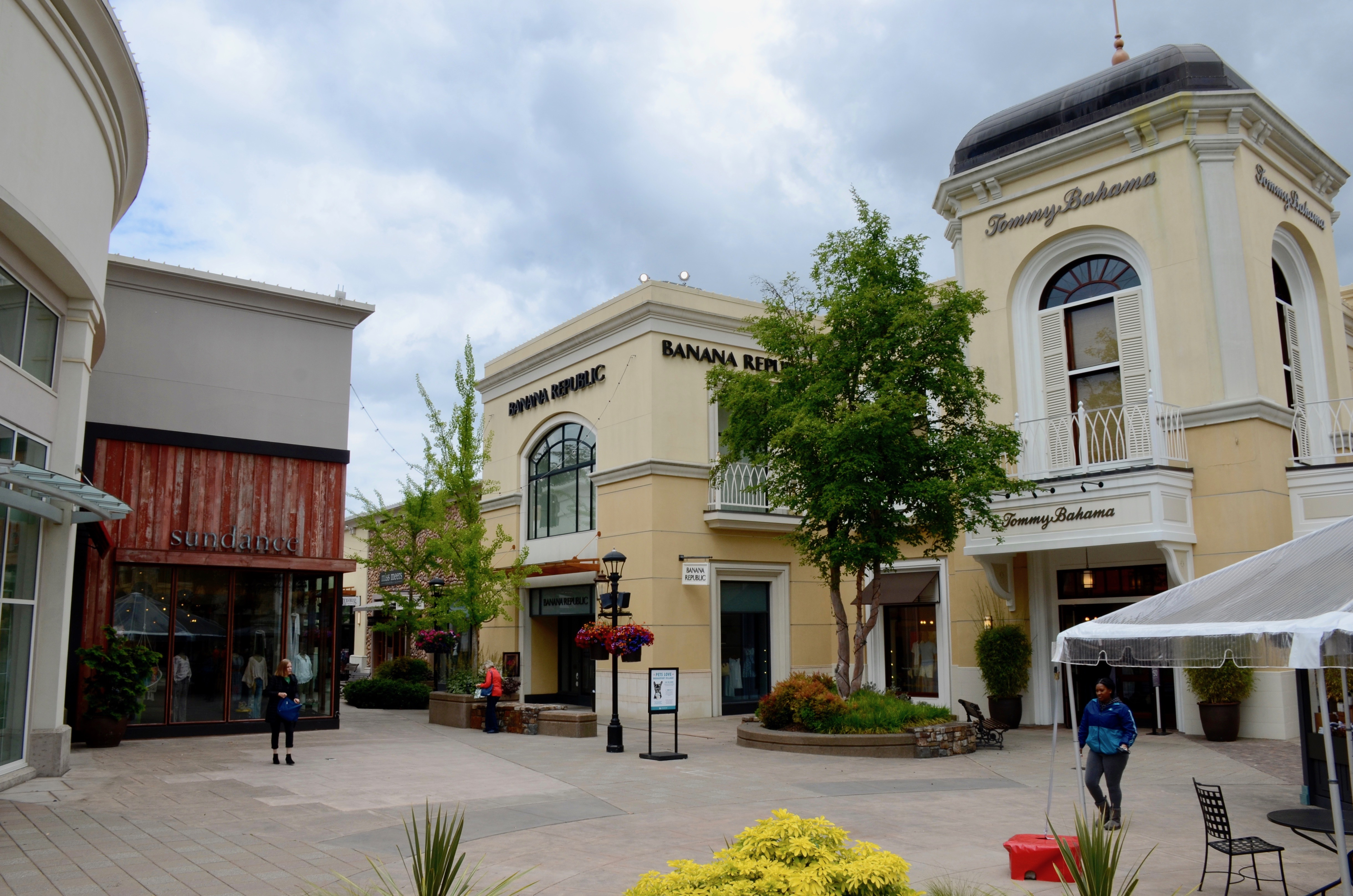 Bridgeport Village shopping mall straddles the boundary between the cities of Tualatin and Tigard, Oregon. This view is looking west near the center of the mall, at a section located within Tualatin, with Sundance, Banana Republic and Tommy Bahama stores visible.